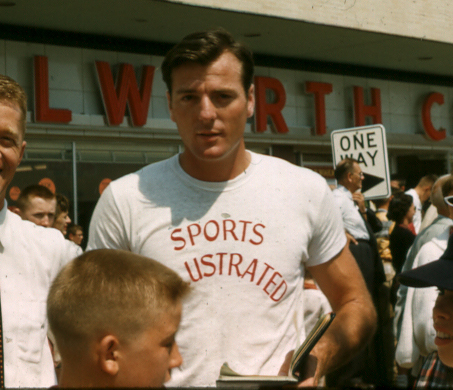 Decathlete Bob Mathias in Fresno, California ca. 1953